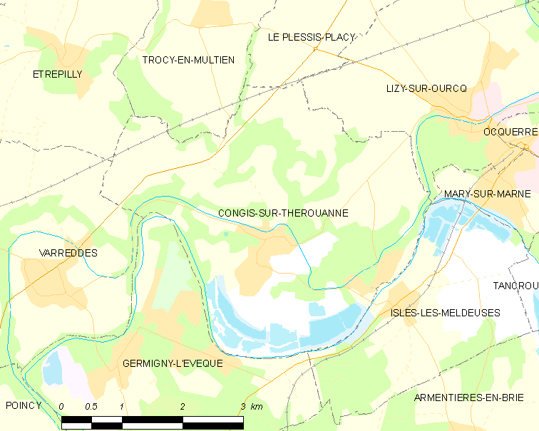 Map of French municipality Congis-sur-Thérouanne